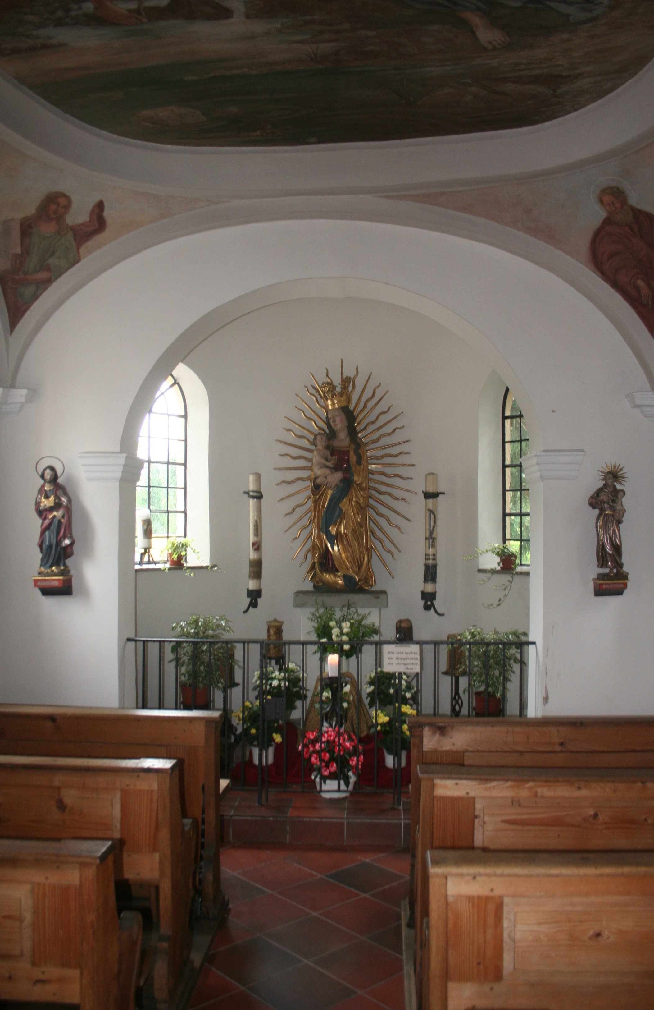 Mills-chapel - indoors